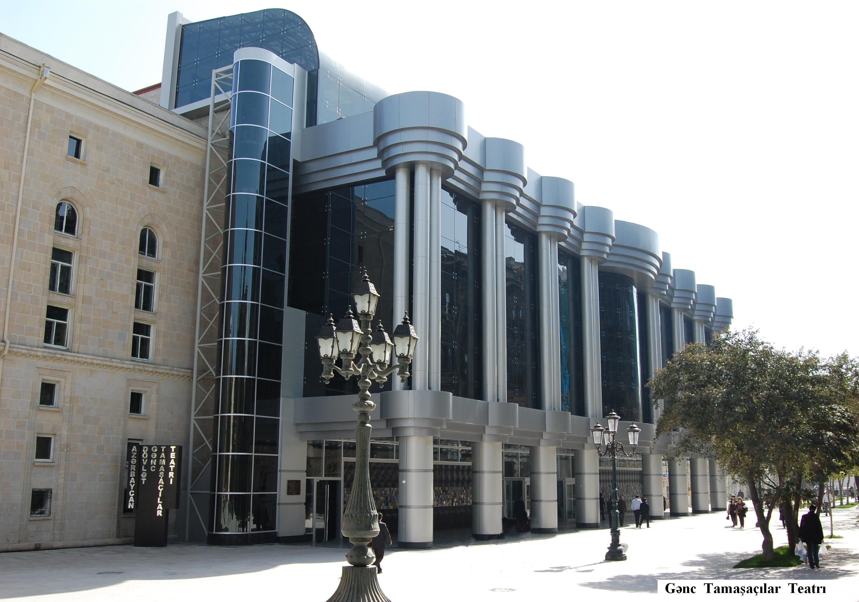 Azerbaijan State Theatre of Young Spectators